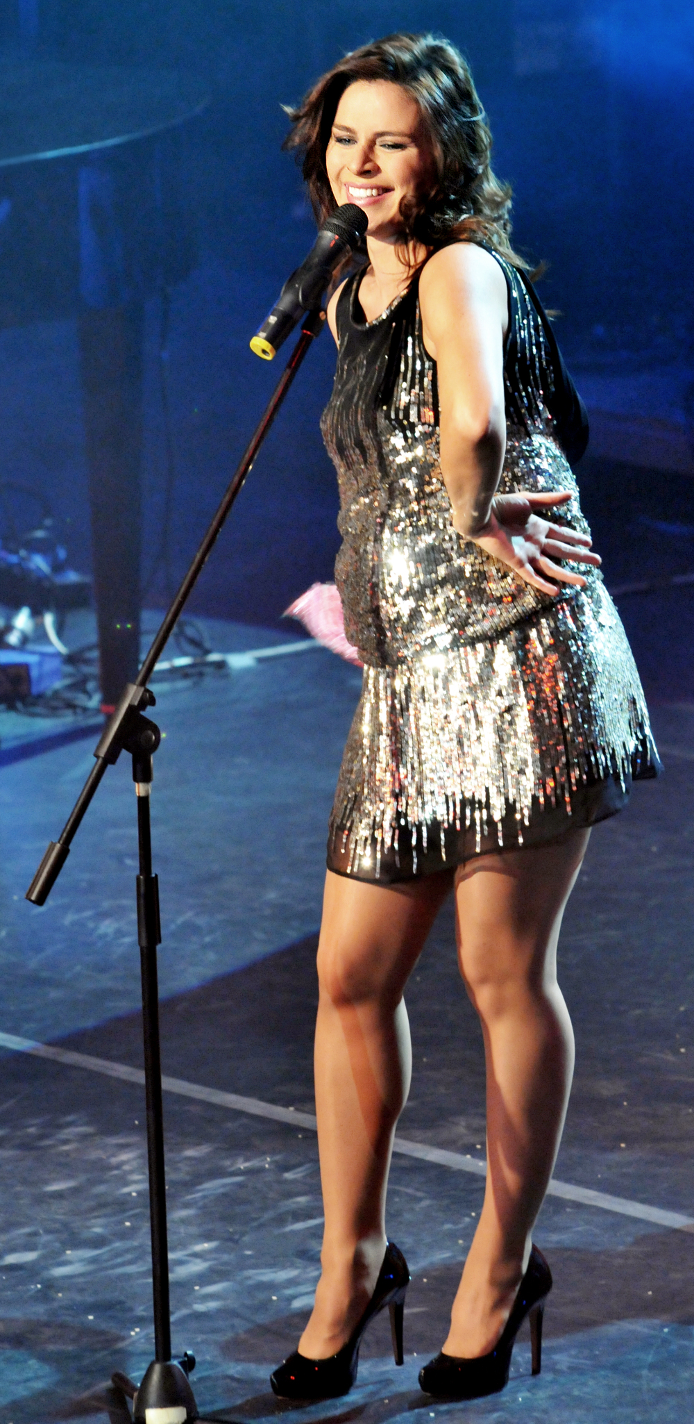 Polish actress and singer, Natasza Urbanska in October 2008 (7 months pregnant)